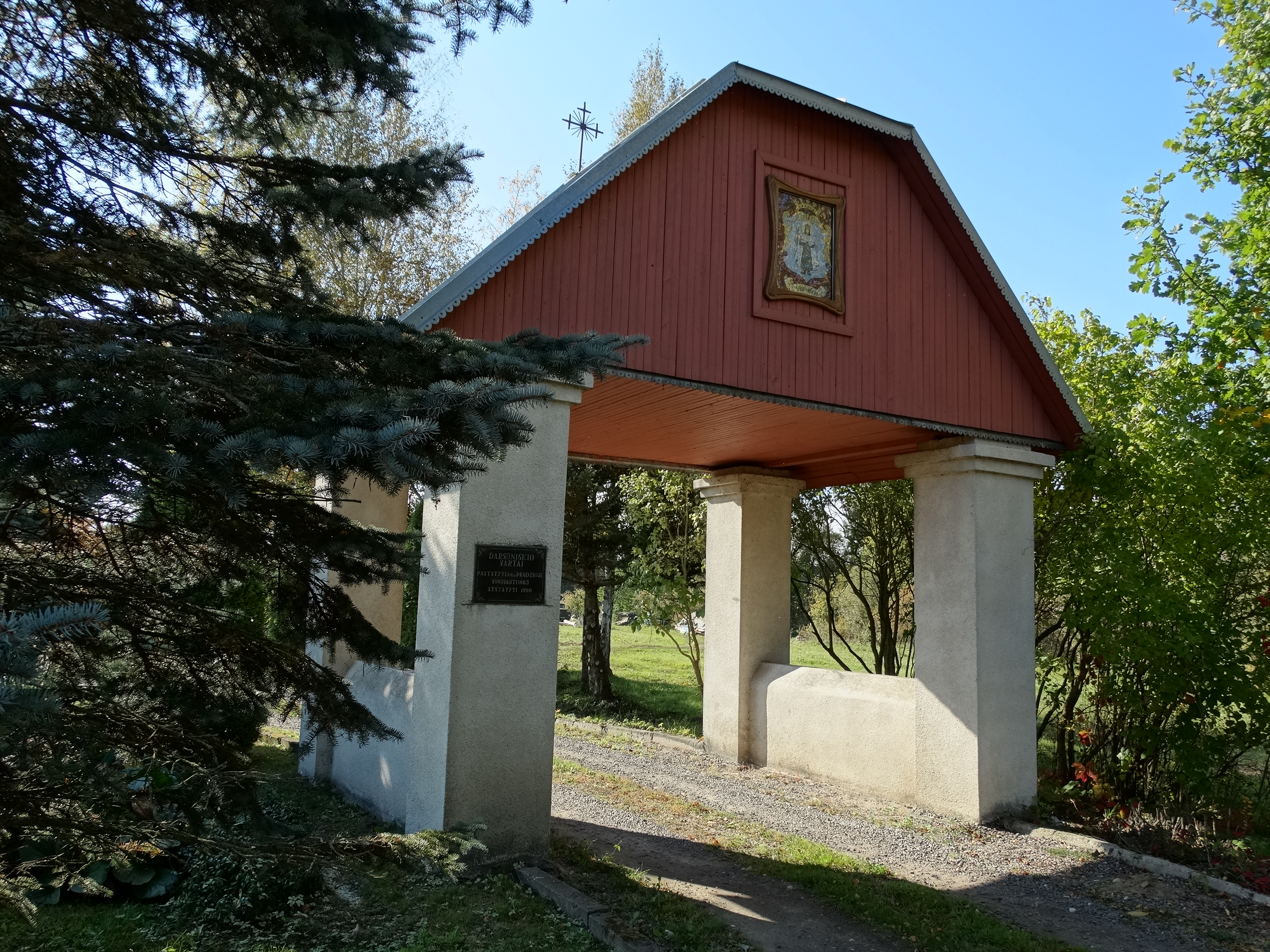 Gates in Darsūniškis, Lithuania